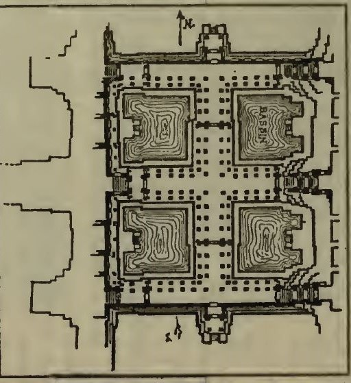 Crossing cloister of Angkor Wat